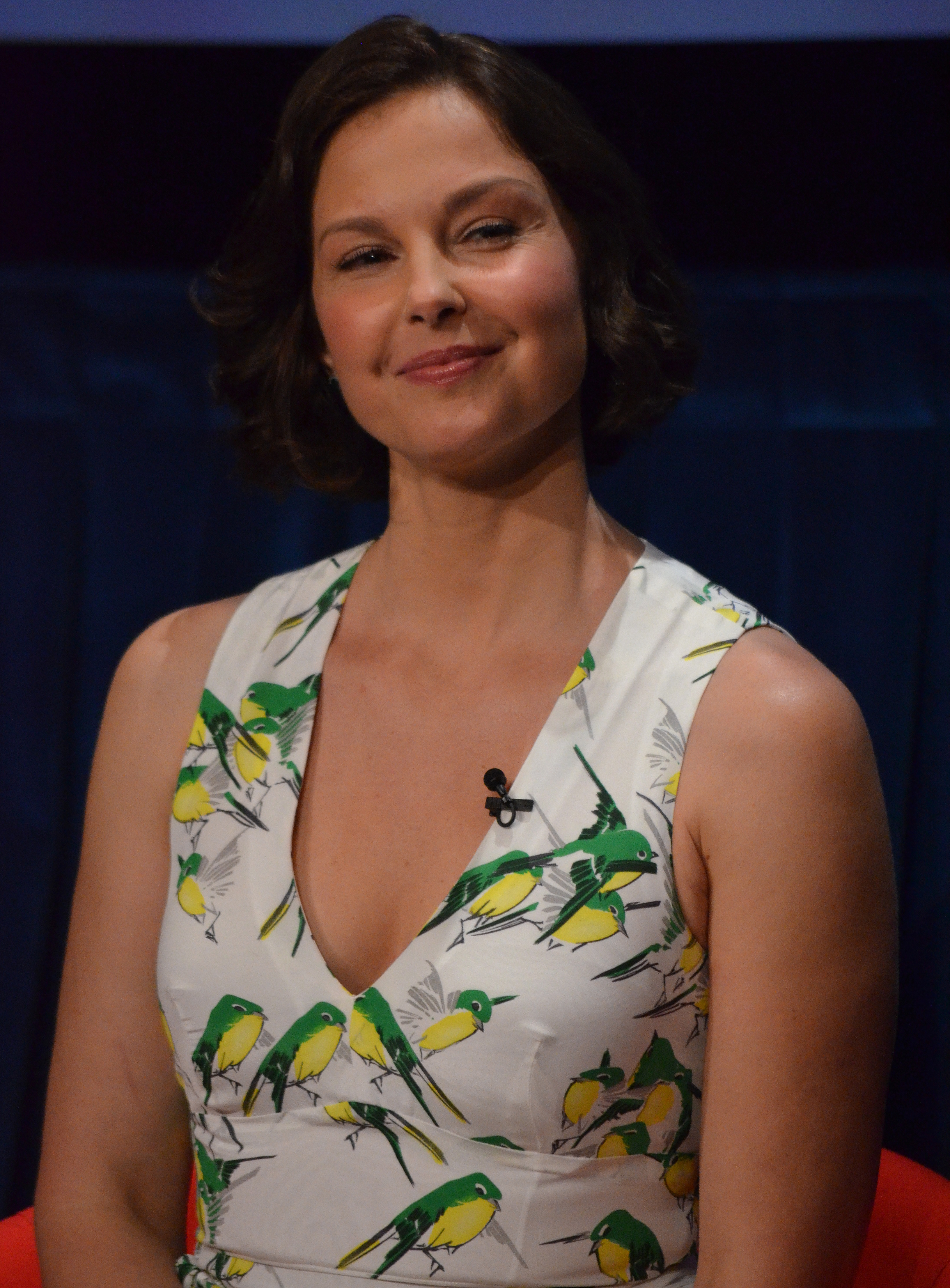 Ashley Judd at the ABC's Missing @ The Paley Center 2012.